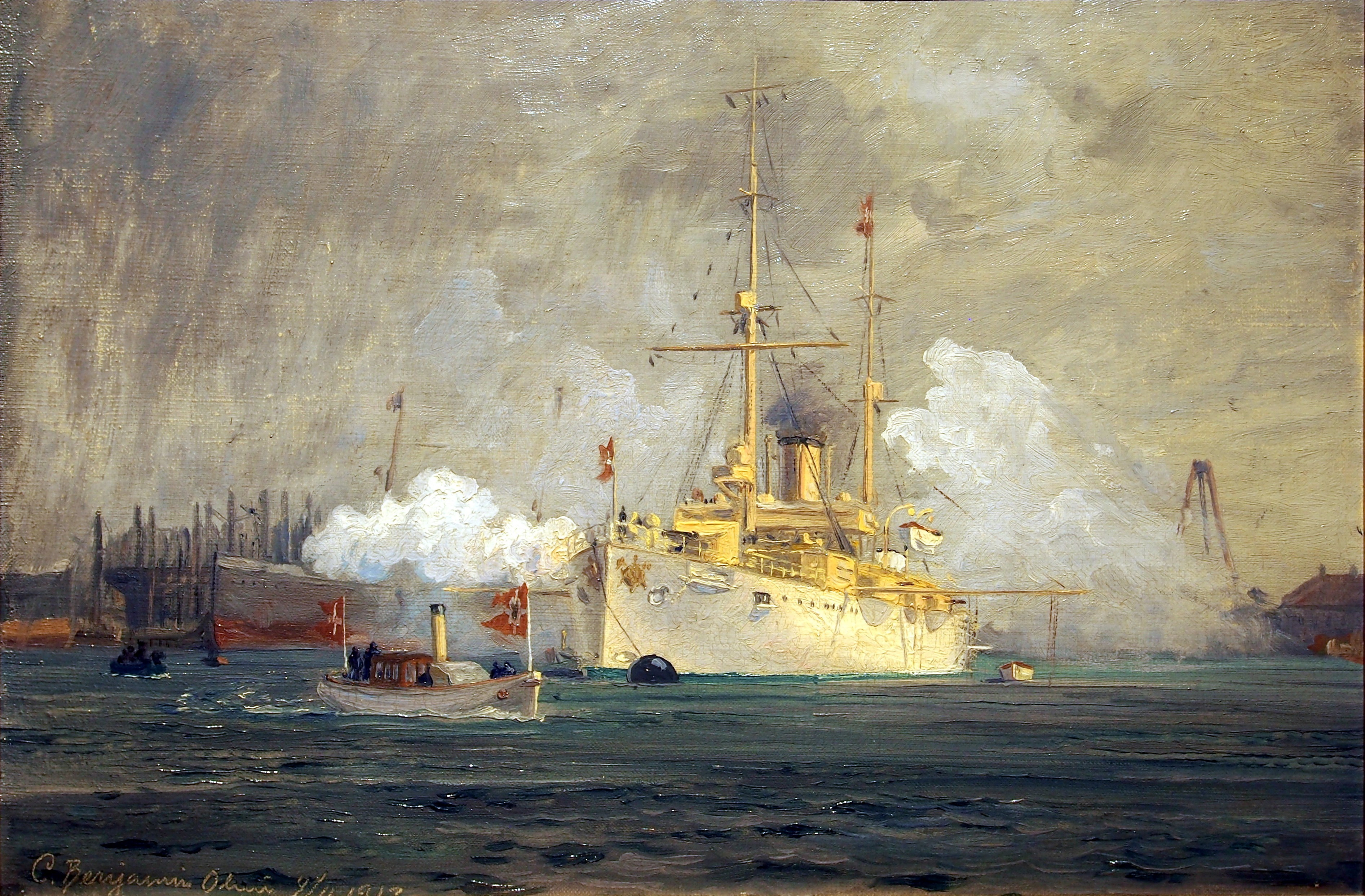 Photographed at the Royal Danish Naval Museum Copenhagen, Denmark.